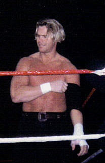 Billy Gunn (real name Monty Sopp) at a WWF event in 1996